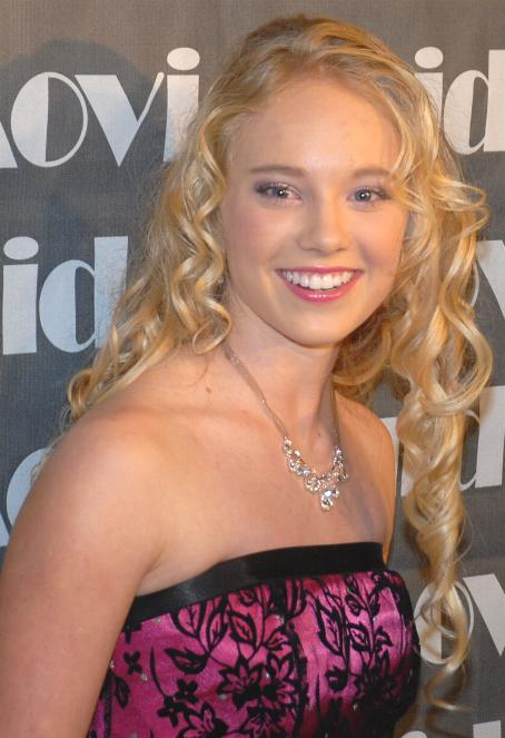 Actress Danielle Chuchran at the 16th Annual MovieGuide Faith and Values Awards Gala